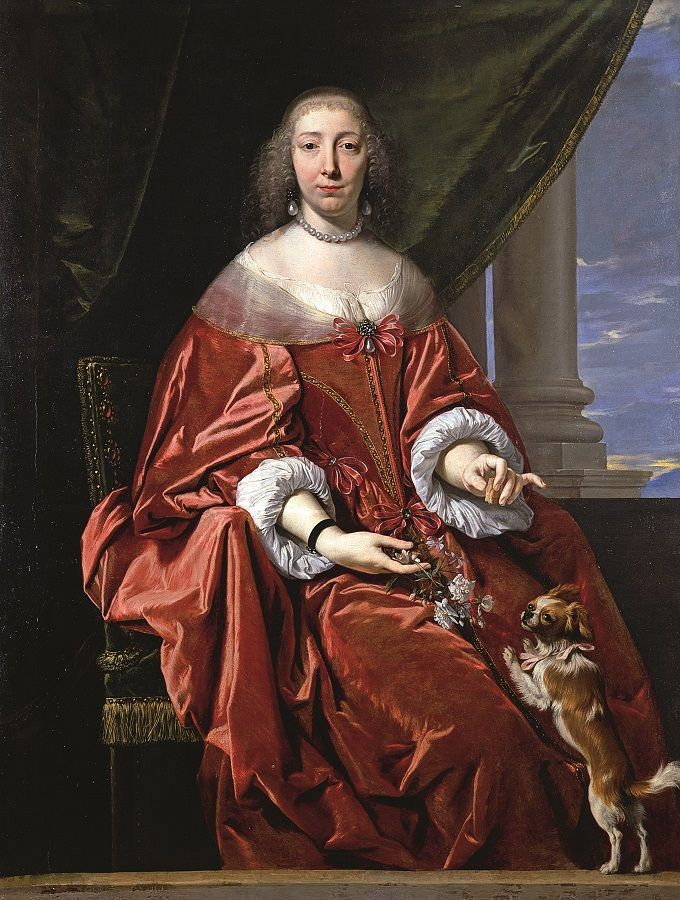 Portrait of Marie Madeleine de Vignerot, by Philippe de Champaigne.